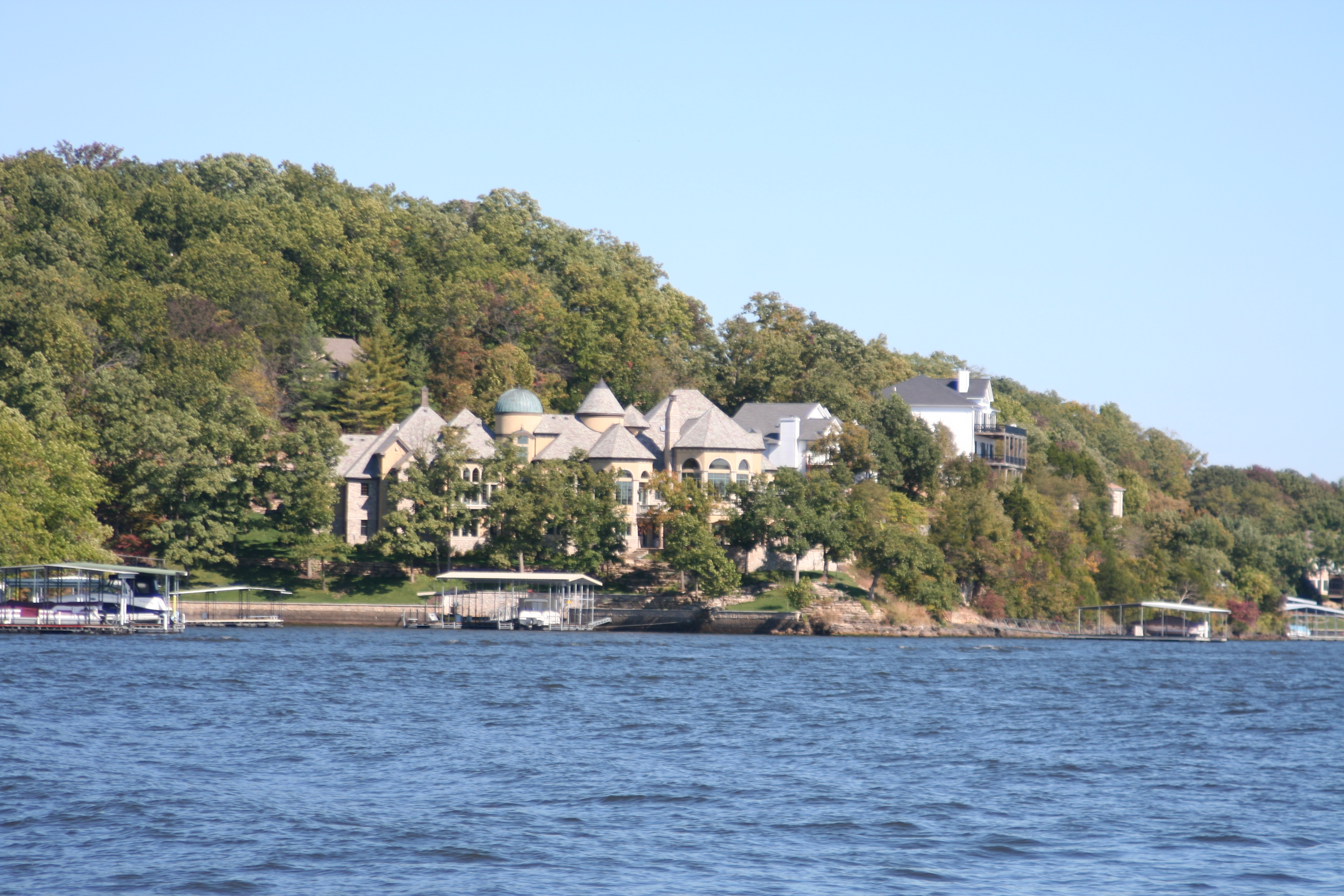 Houses on Lake of the Ozarks, Missouri, USA. Mile Marker=?